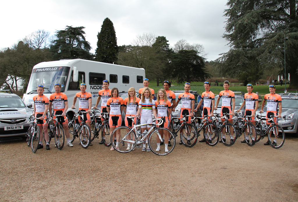 Official Node4 Pro Cycling Team Launch